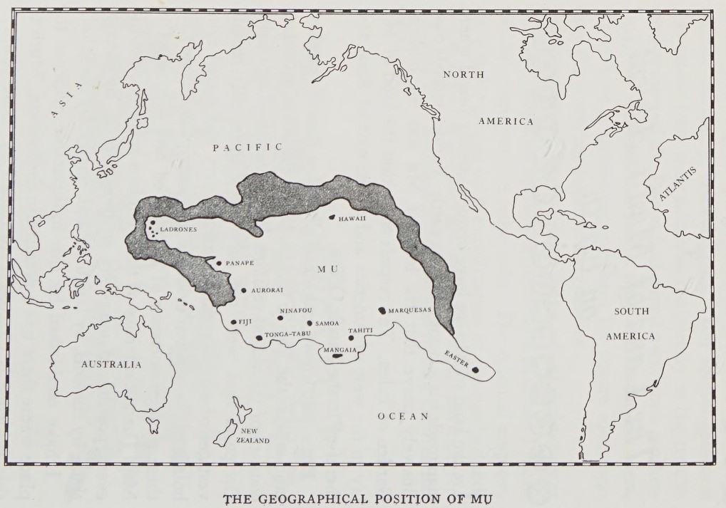 Map from "The Lost Continent of Mu", 1927. By james Churchward.